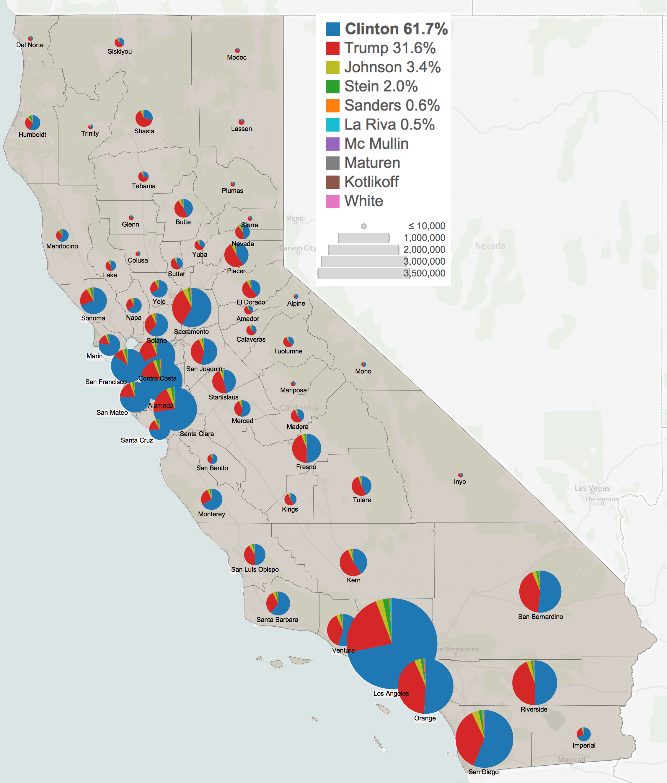 California 2016 presidential results by county. Size shows number of votes, colors show candidates and portion of that county's vote. Source: General Election - Statement of Vote, November 8, 2016. Final results certified by Alex Padilla, California Secretary of State. December 16, 2016.